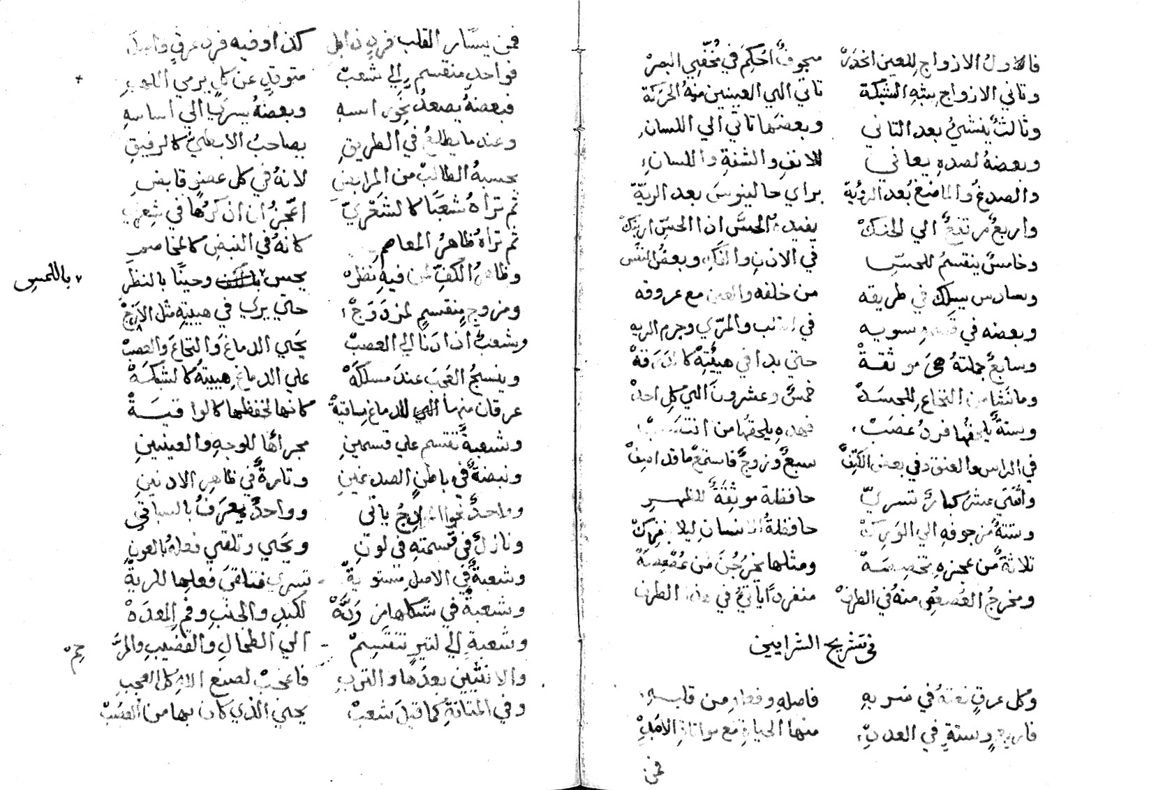 Text: contains the title "Arteries" Asian Collection Keywords: anatomy, arabic; Avicenna